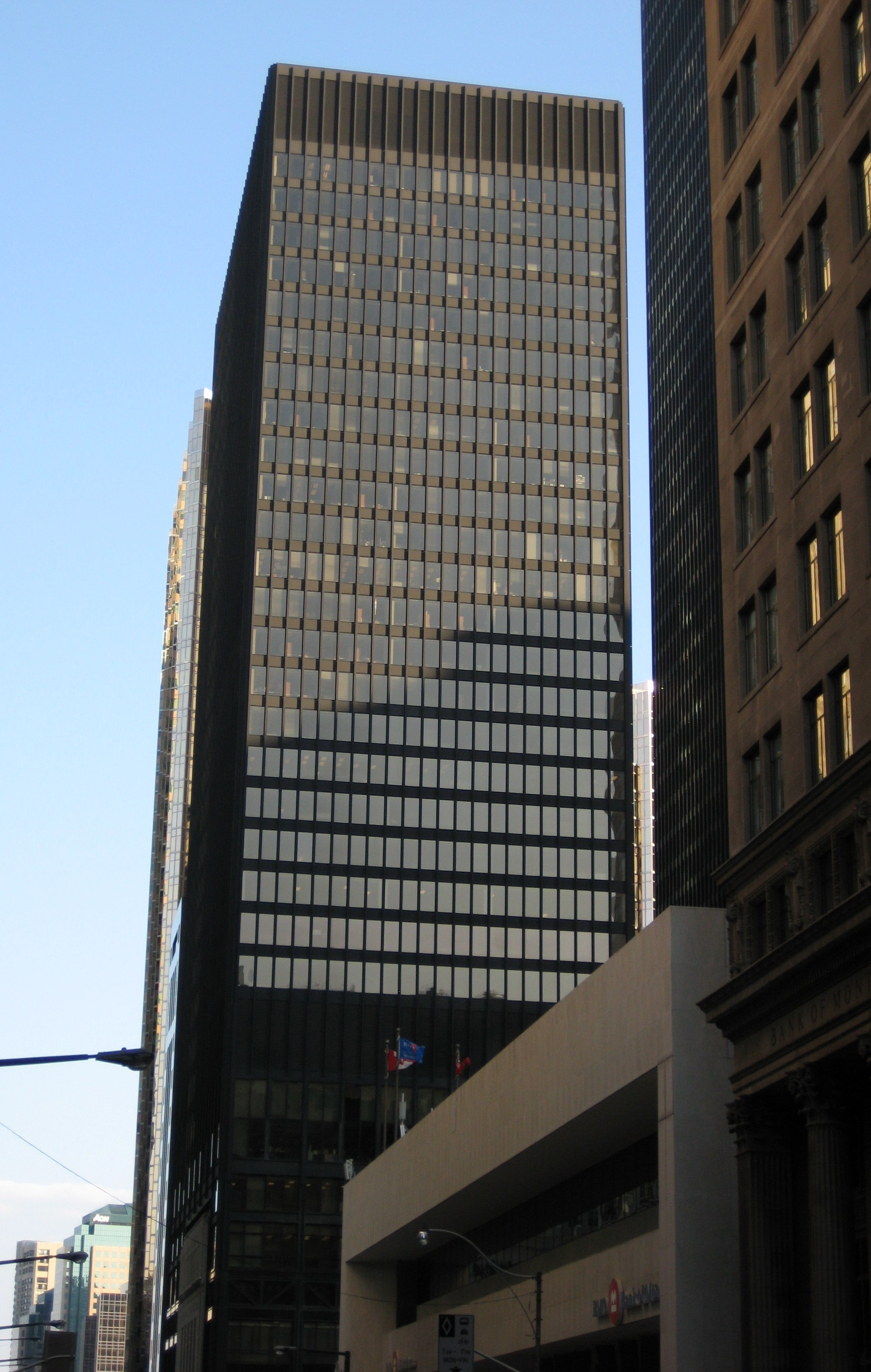 Ernst & Young Tower, Toronto